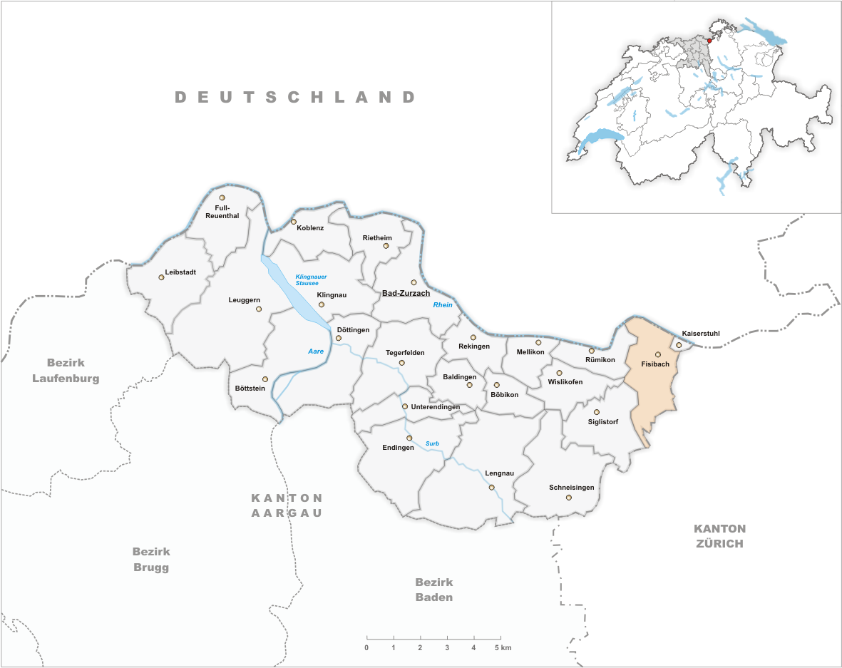 Municipality Fisibach